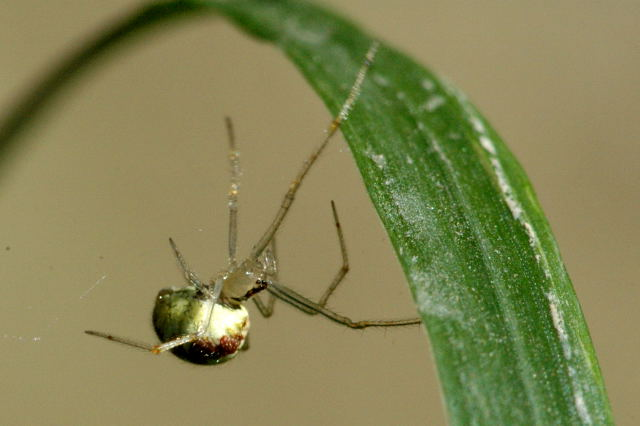 Theridion varians from Commanster, Belgian High Ardennes .